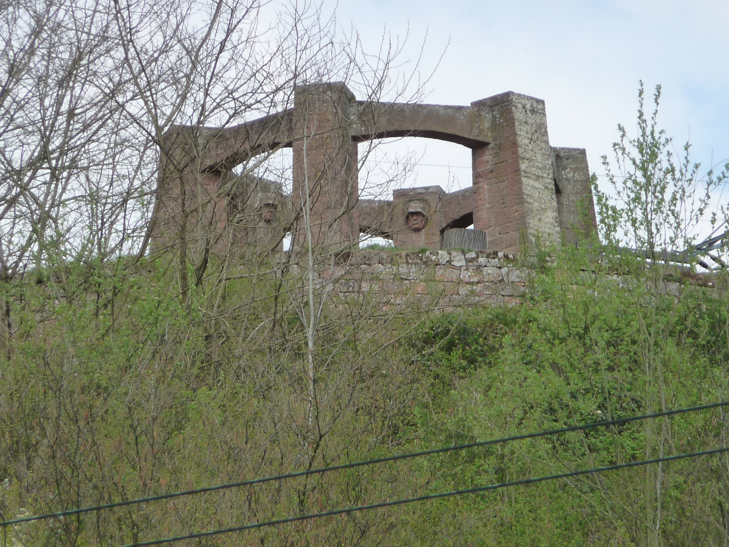 Weidenthal